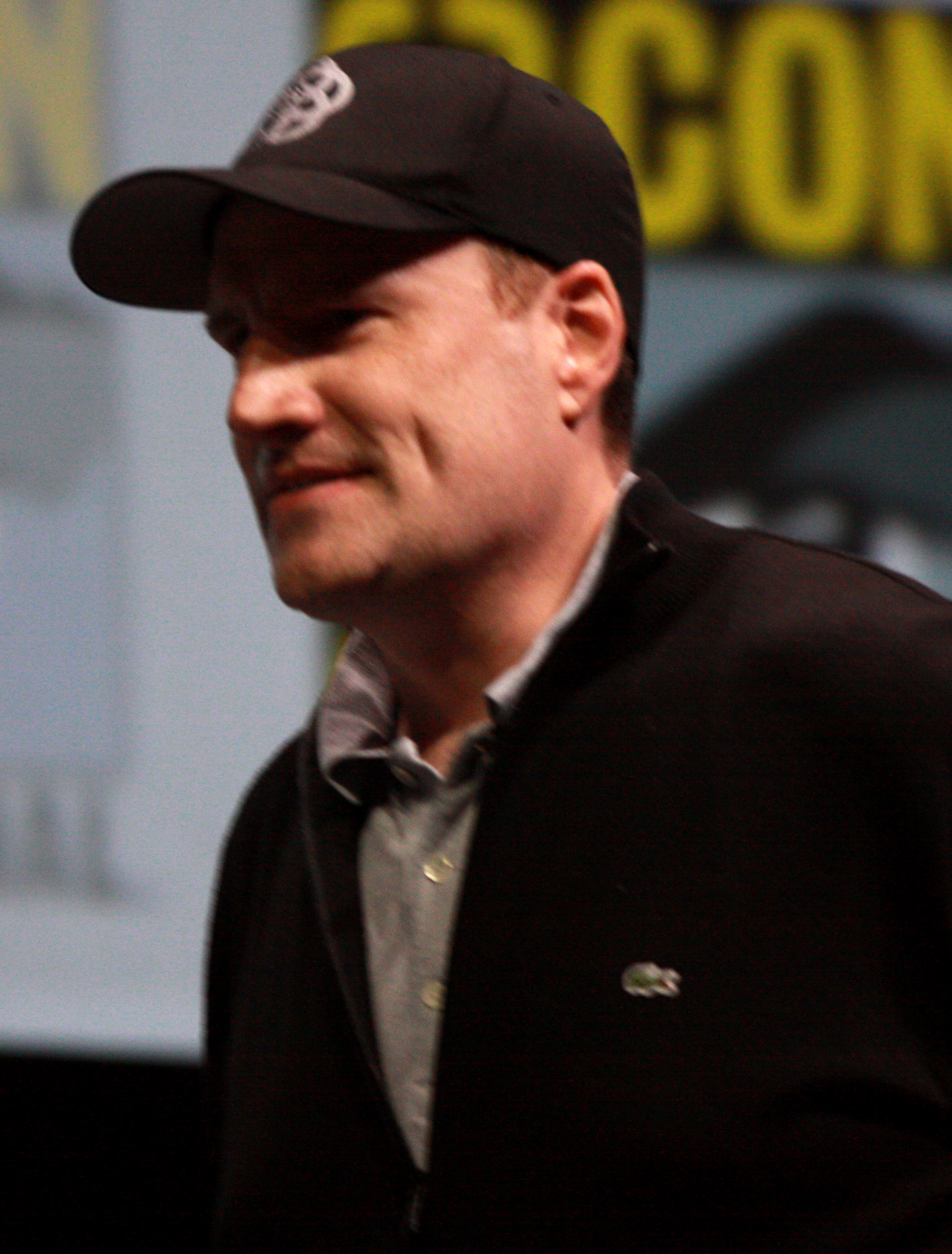 Kevin Feige at the 2013 San Diego Comic Con International